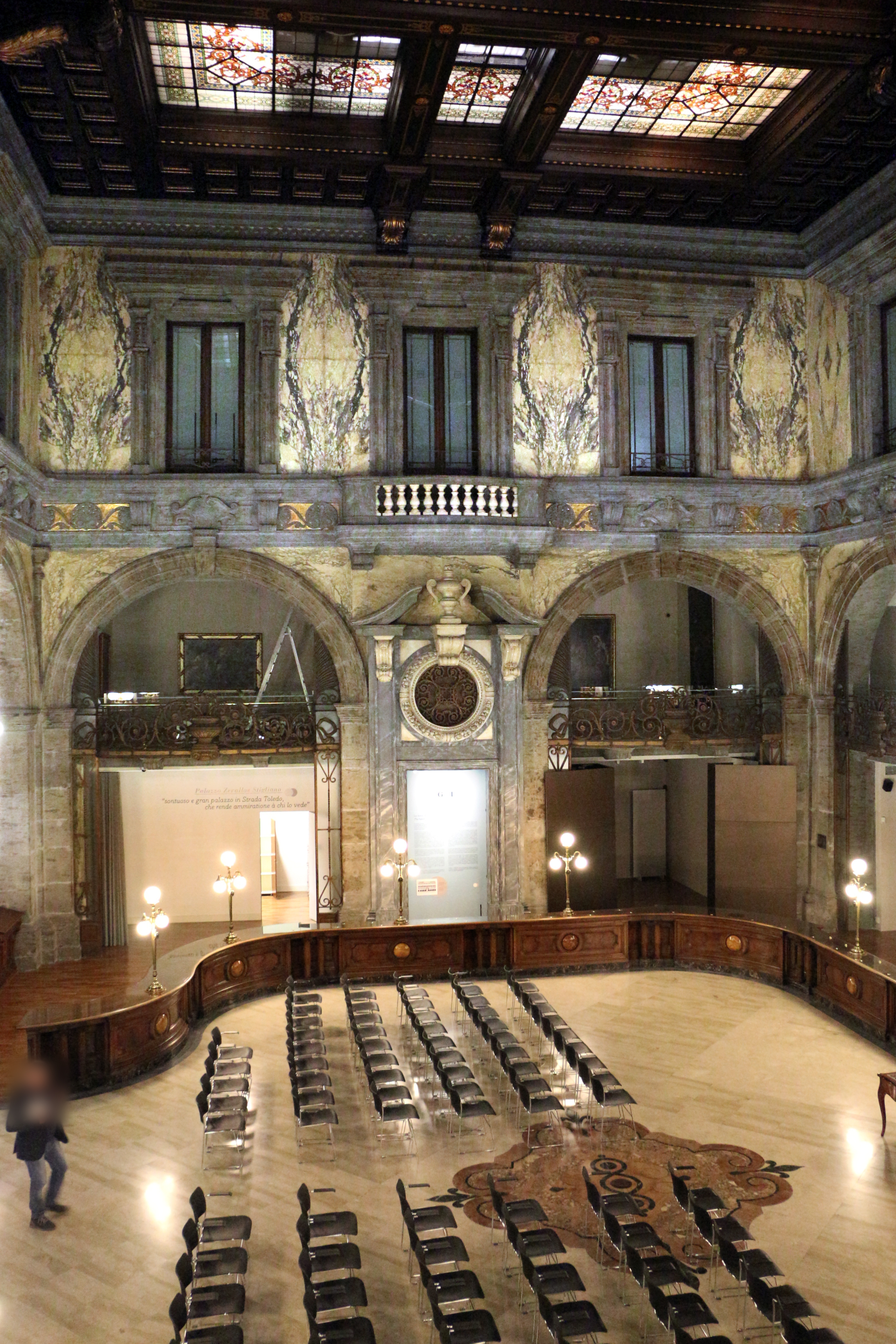 Palazzo Zevallos (Naples)